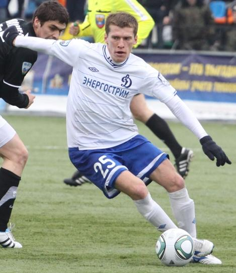 Almir Mukhutdinov playing for FC Dynamo Bryansk.